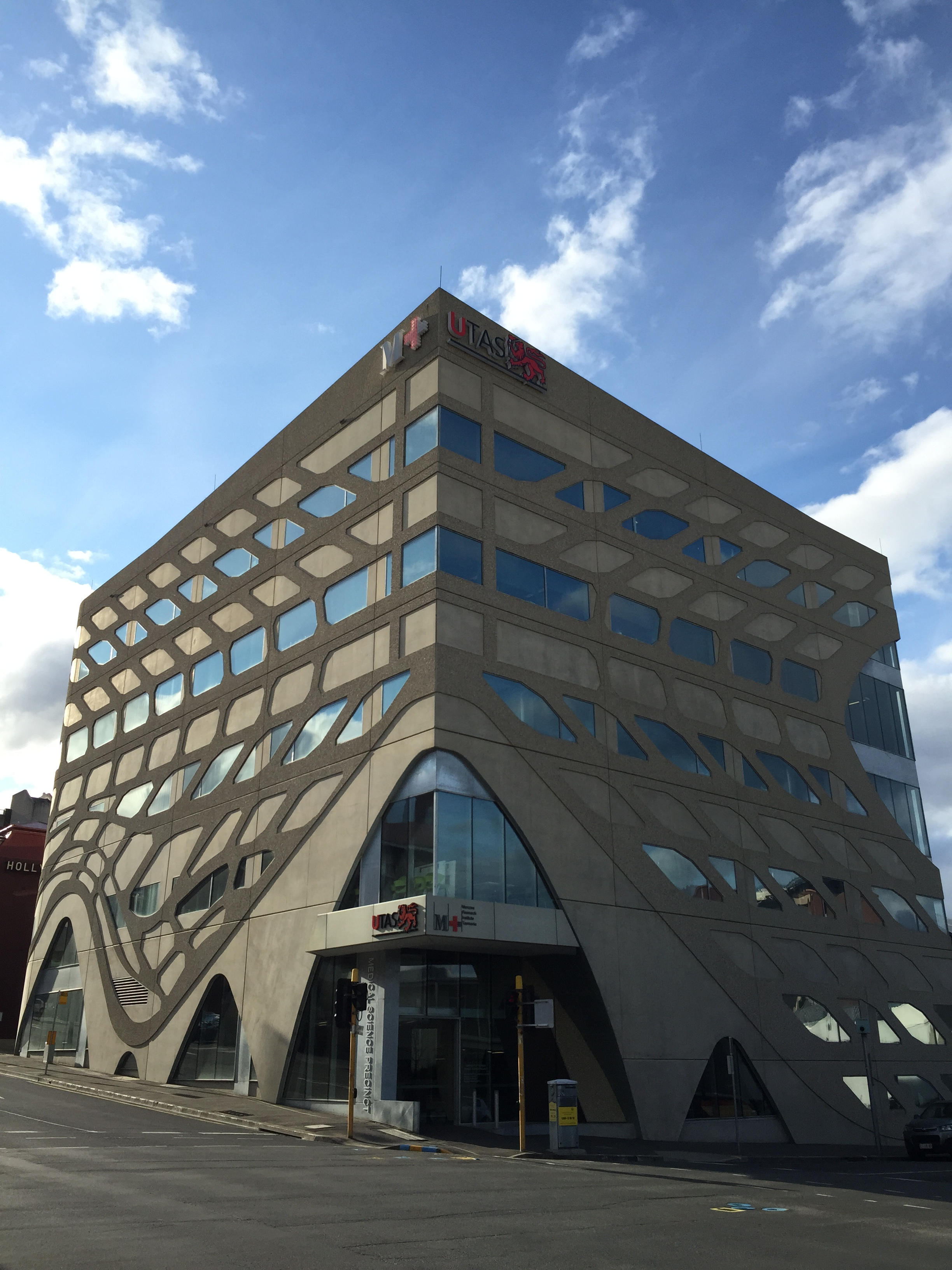 Medical Science 1 (MS1) building of the University of Tasmania Medical Science Precinct in Hobart, Tasmania, Australia. From the corner of Liverpool and Campbell Streets.